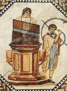 This is an unattributed photo of an ancient art work on the website of the Hellenic Ministry of Culture, at The uploader assumes it is in public domain.